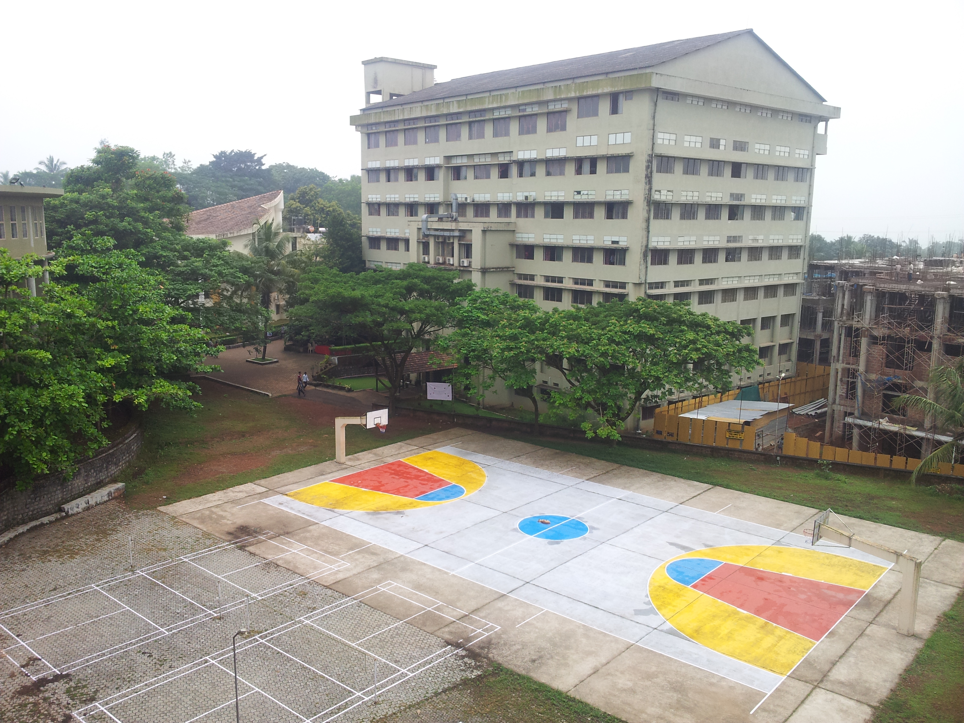 Top View of the college